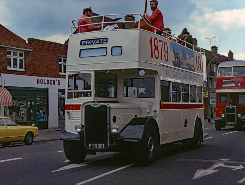 Southampton Transport Corporation 64 (ex 164) Guy Arab III open top bus (FTR 511) Owned by D Fereday Glenn. Scanned from a Kodachrome 35mm slide.